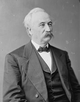 John O. Whitehouse, New York Congressman